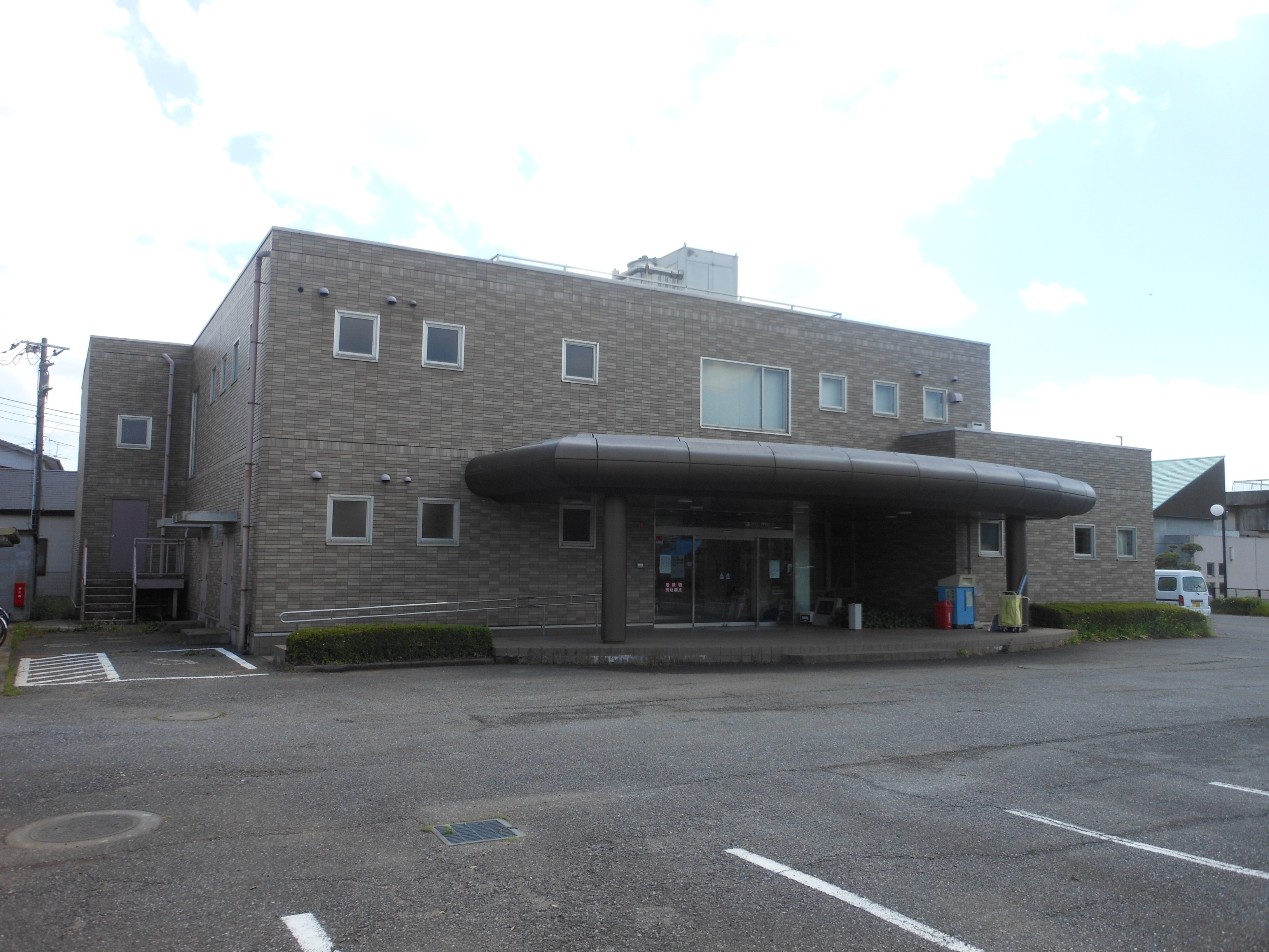 This is the Kokinu community center, which is located in Tsukubamirai, Ibaraki, Japan.TSUKUBAMIRAI PUBLIC LIBRARY Kokinu branch is also there.